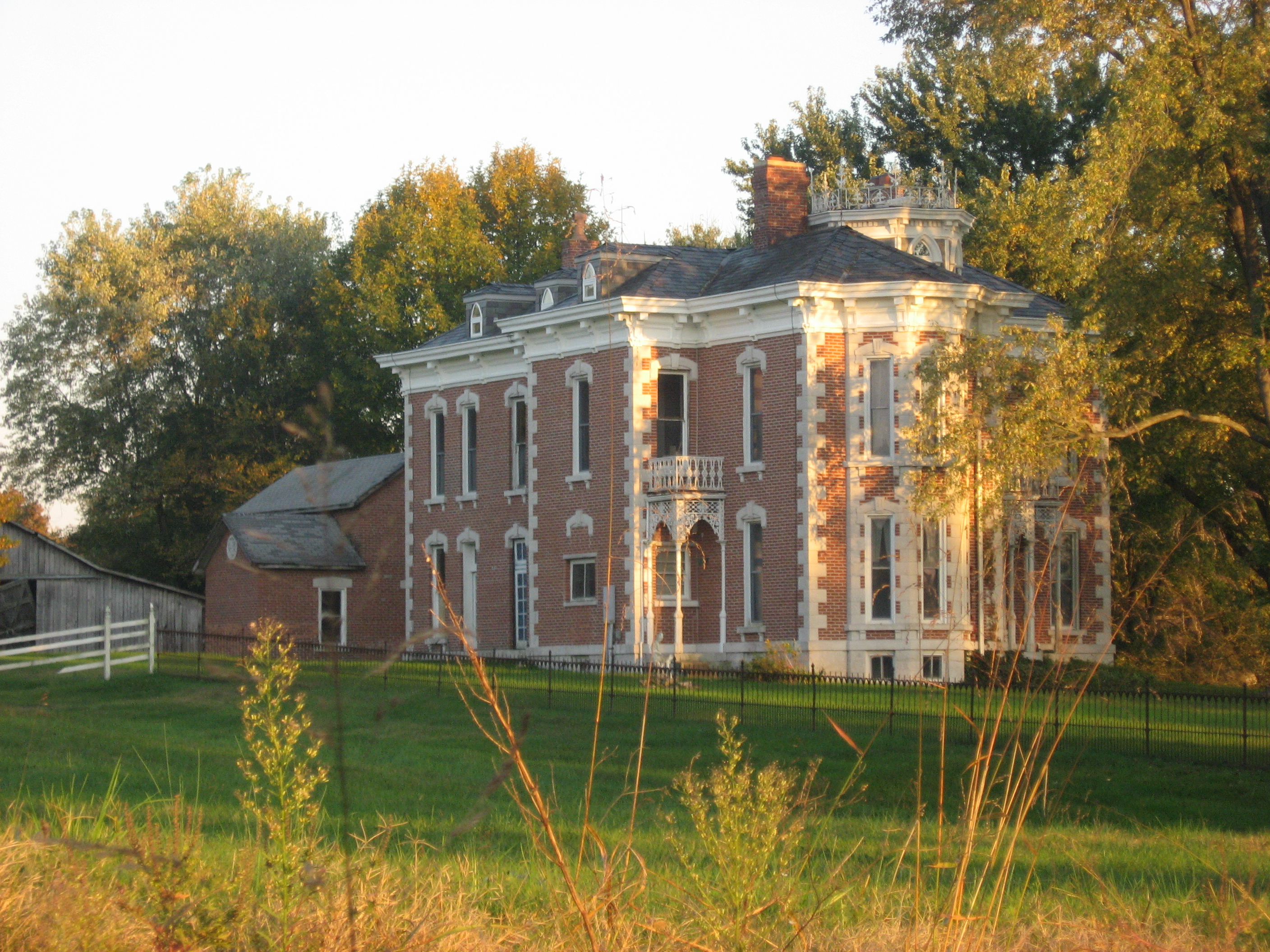 Front and northern side of the Alfred H. Guthrie Mansion, located at 12406 Tunnelton Road in Tunnelton in Lawrence County, Indiana, United States. Built in 1878, it is one of the area's grandest Italianate houses.